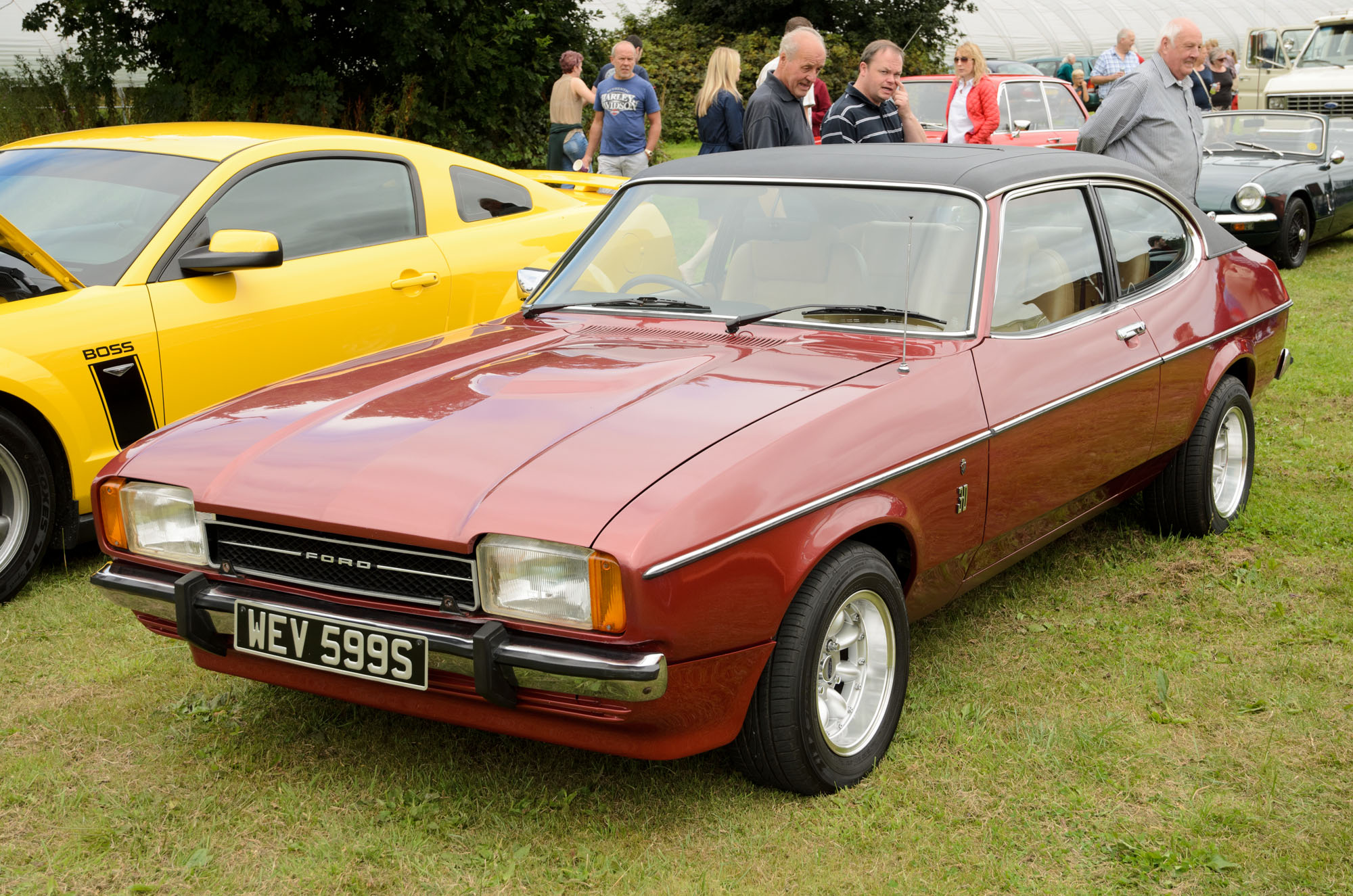 North Cheshire Classic Car Club 14/08/2016